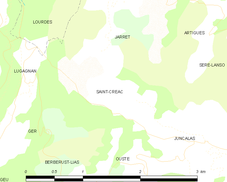 Map of French municipality